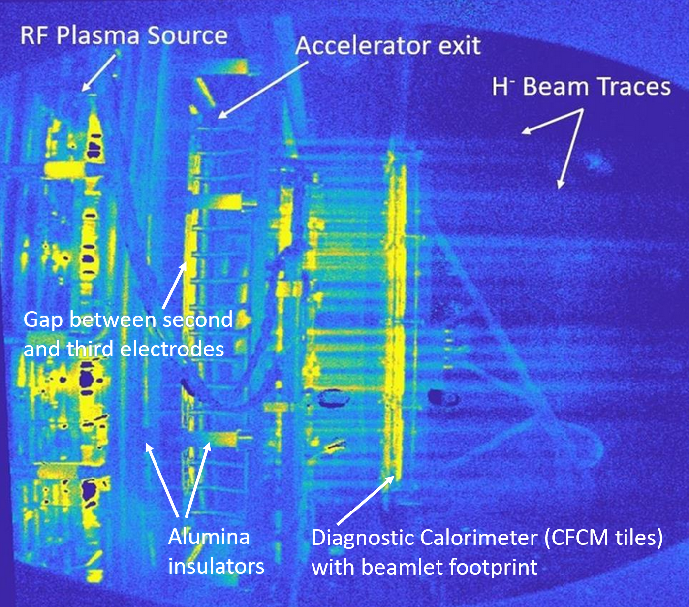 Lateral view of SPIDER during negative ion extraction with a reduced number of beamlets (80) in volume operation